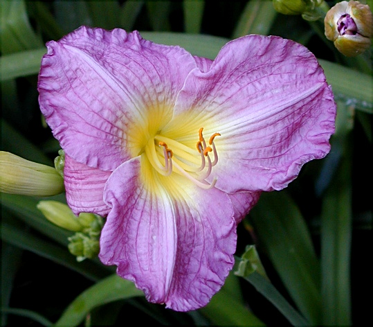 Hemerocallis diploid hybrid